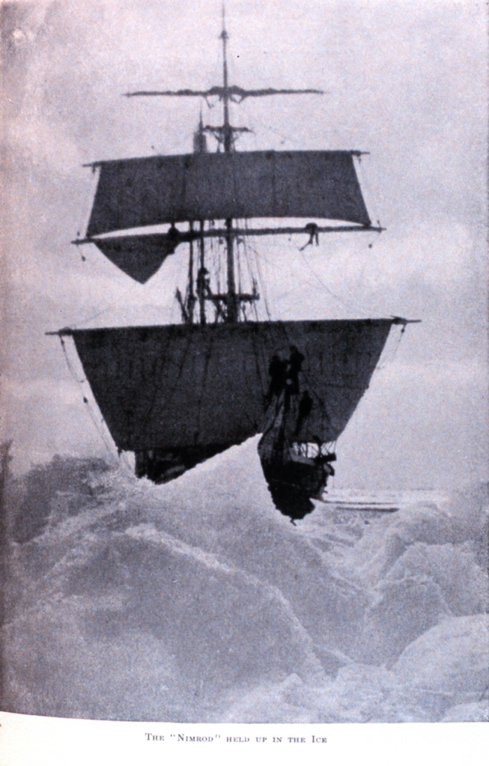 "The Nimrod Held Up in the Ice".